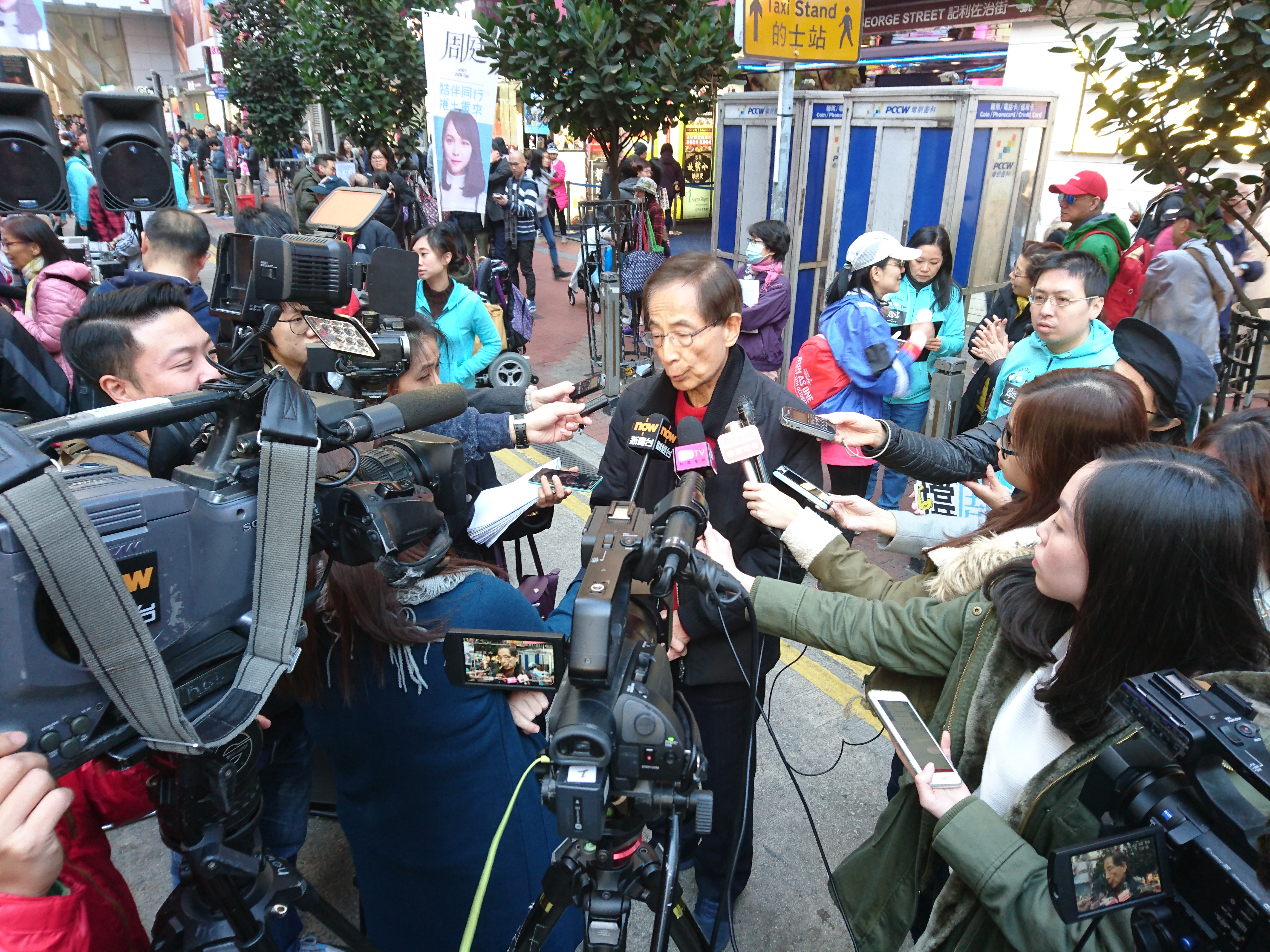 Martin Lee being interviewed in Jan 2018